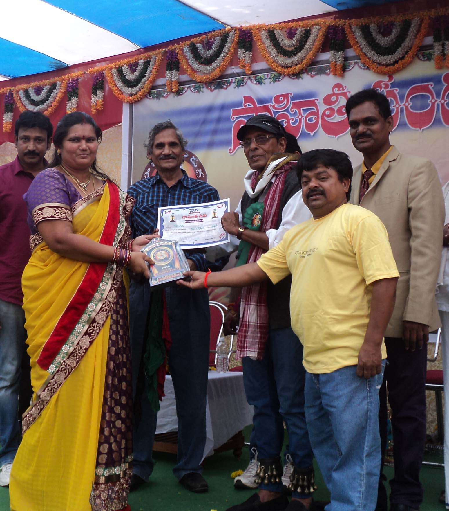 Siri Labala